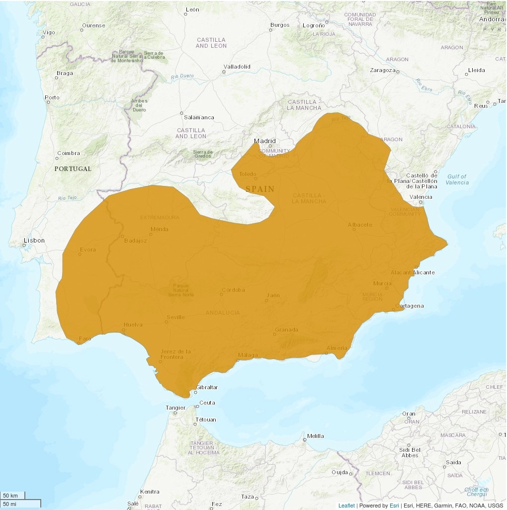 The Apteromantis aptera endemism can be found in the South of the Iberian Peninsula. This map, generated by the specific tool found in th UICN Red List web page, shows a more specific geographical expansion, although the exact population size and distribuition remainds unknow. Compiled by Roberto Battiston IUCN/SSC Grassopper Specialist Group 2014